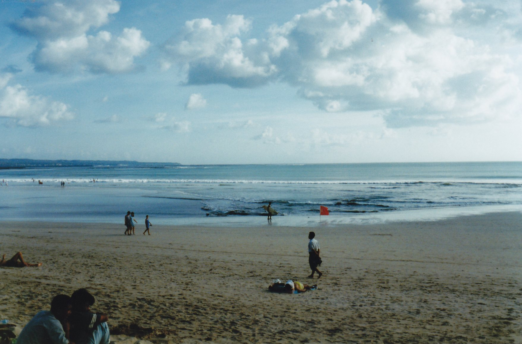 Rip current along a beach in southern Bali (along the Indian Ocean). The red flag notifies beach users. It is not a fixed mark, because every day the rip current may appear elsewhere along the beach